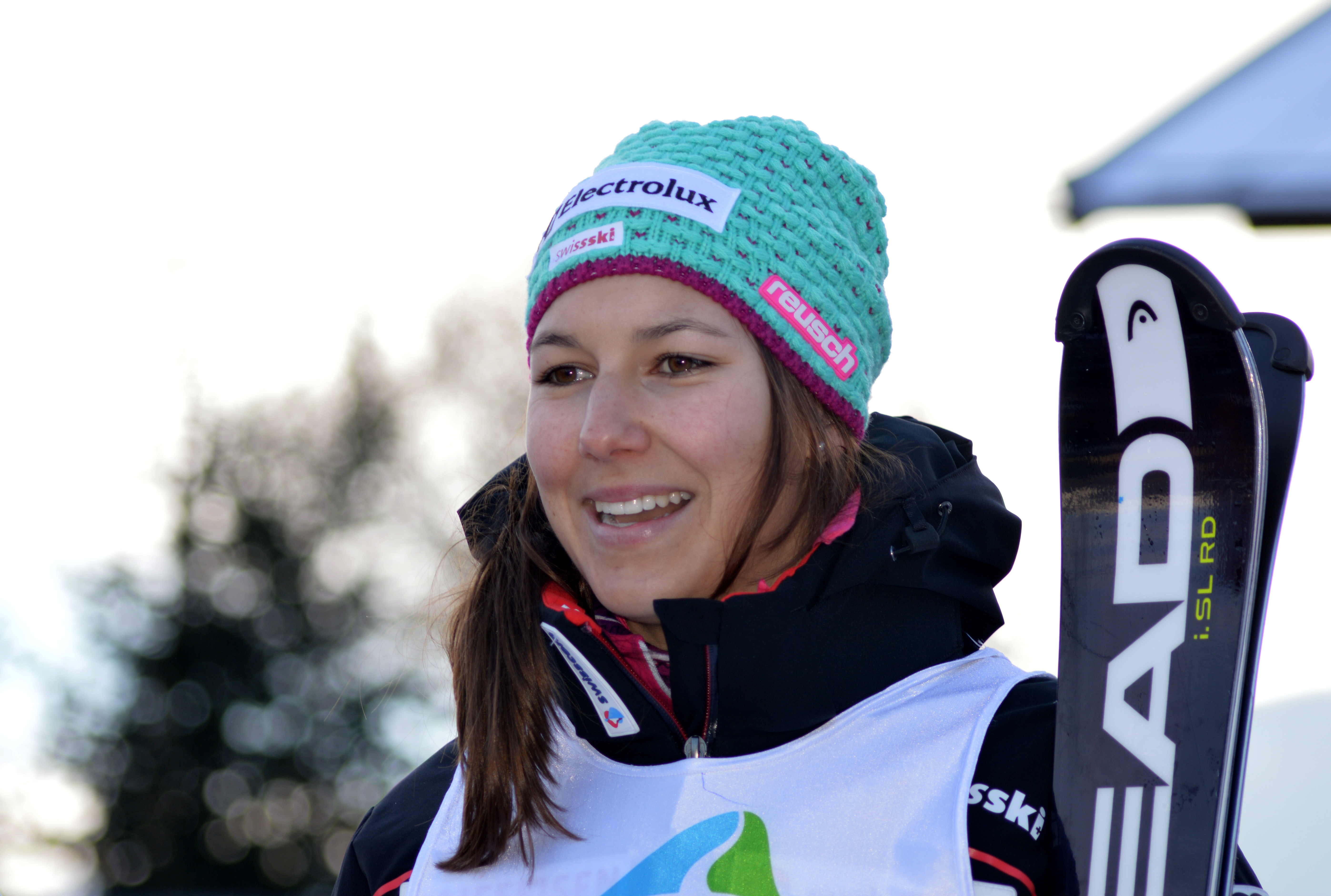 Wendy Holdener after winning the European Cup Giant Slalom 2 in Zell am See - Ebenberg, Salzburg (state), Austria. Wendy Holdener, born 12th of May 1993 in Unteriberg, Switzerland, Ski Club SC Drusberg, member oft he Swiss National Alpine skiing team. Best results: 2nd place Slalom World Cap race in Ofterschwang 2013, 4th place at the city-event in Moscow 2013; five times under the top ten in Slalom Worldcup races in 2013; Swiss Champion 2013 in Slalom, Giant Slalom and Super–Combination